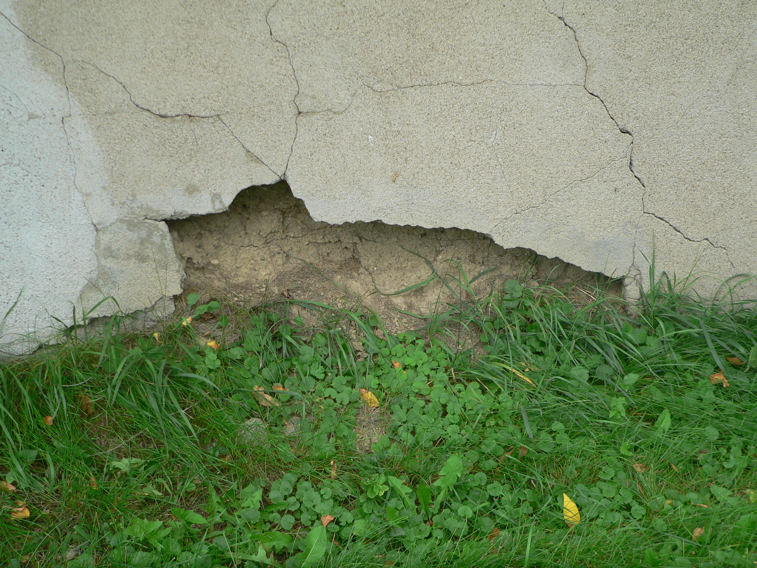 Rammed-earth wall at former residence of Dean of Agricultural and Biological Sciences, west of Medary Avenue and south of an apparently unnamed gravel road that runs west from Medary just north of North Campus Drive. Damaged stucco at base of west end of wall, showing interior construction of wall.